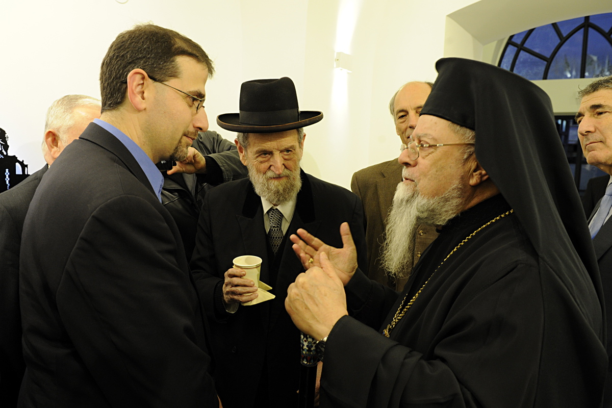 Mayor Yahav welcomed Ambassador Shapiro to a full-day’s visit to Haifa, briefing him on his city’s impressive projects, which are turning Israel’s largest northern city into a leader in transportation, culture, and high-tech. Following a visit to American-Israeli high-tech leader G.E. Healthcare, the Ambassador visited MadaTech, Israel’s National Museum of Science, Technology & Space, where he met schoolchildren enjoying the newly inaugurated Noble Energy Science Park, and even tried some of the rides himself. At the University of Haifa, President Aaron Ben-Ze’ev and the Student’s Union organized the first-ever “American Day.” The highlight of the university visit was Ambassador Shapiro’s Town Hall meeting on “U.S. – Israel Relations and Regional Issues in a Changing World,” where the students questioned him at length. Mayor Yahav closed out the eventful day at Beit Hagefen Arab-Jewish Cultural Center, where the Ambassador met with religious leaders representing the Christian and Muslim Arab, Jewish, and Baha’i faiths, who credited Haifa municipality’s active support for dialogue and cooperation among the different religious groups with Haifa’s success as a mixed city. Photo credit: Matty Stern/U.S. Embassy Tel Aviv Haifa